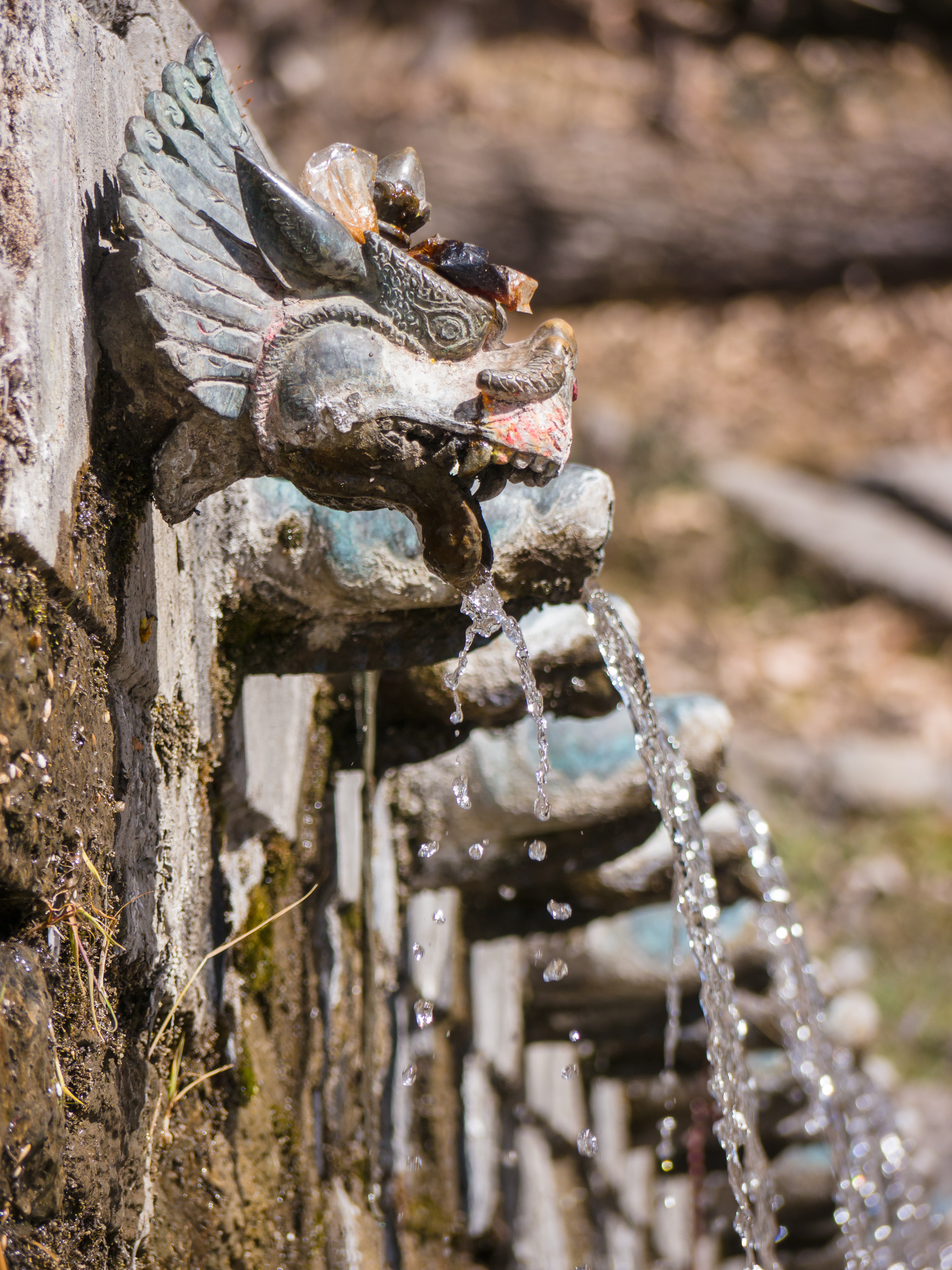 Some of the 108 waterspouts surrounding the Muktinath Temple.